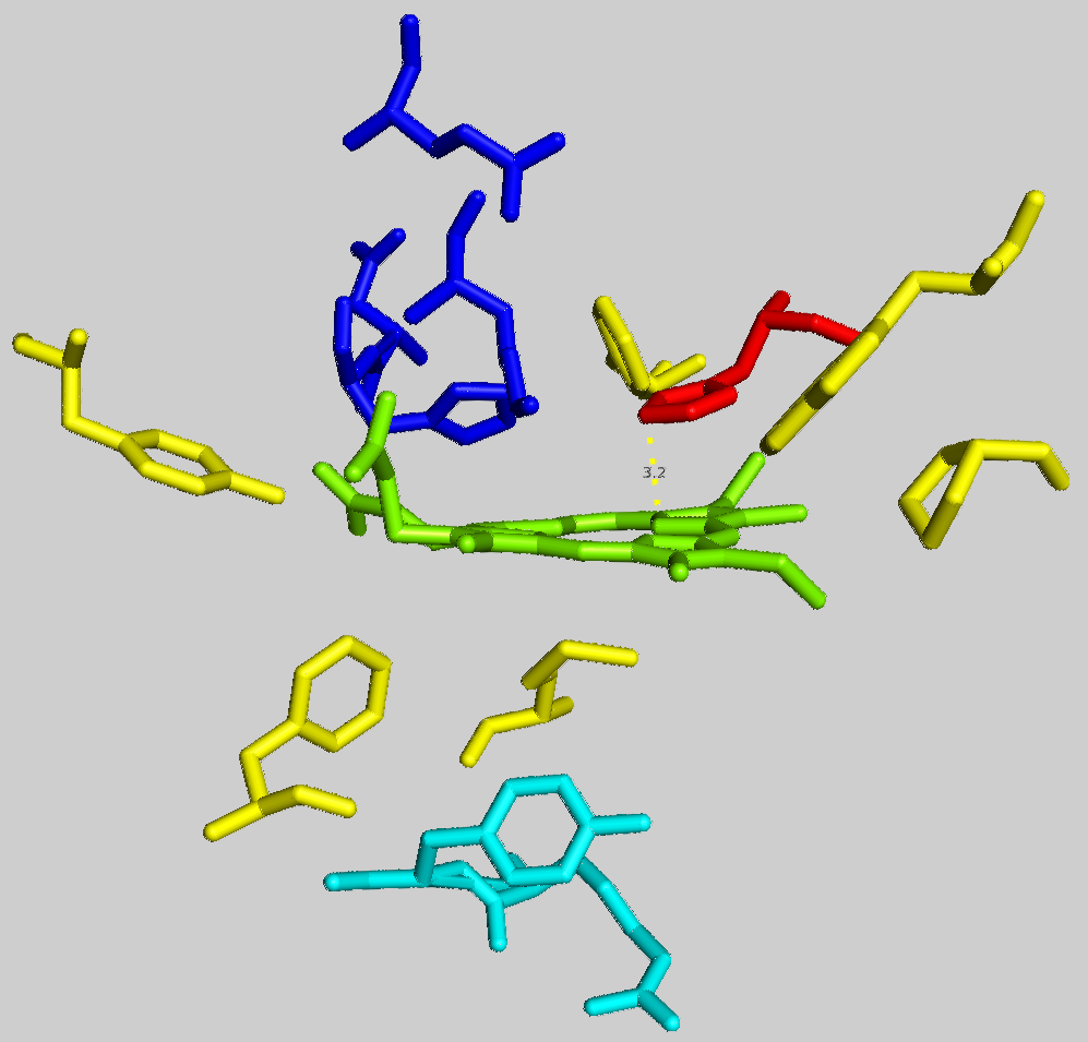 Created from RCSB PDB 2QD1 using Pymol. Yellow residues are hydrophobic, blue are anionic proton transfer path, cyan are metallation residues, red is catalytic histidine. Green in protporphyrin IX substrate.